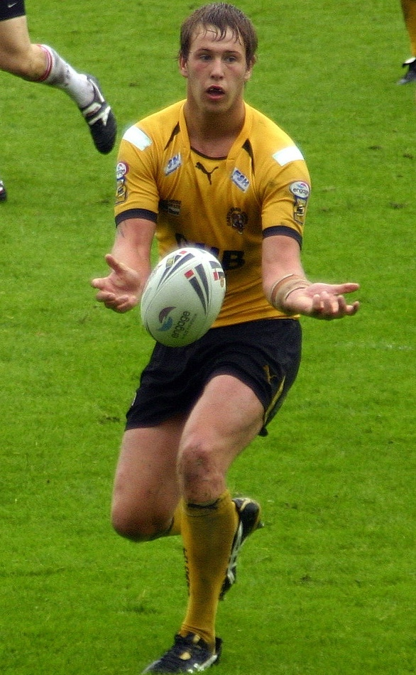 Joe Westerman